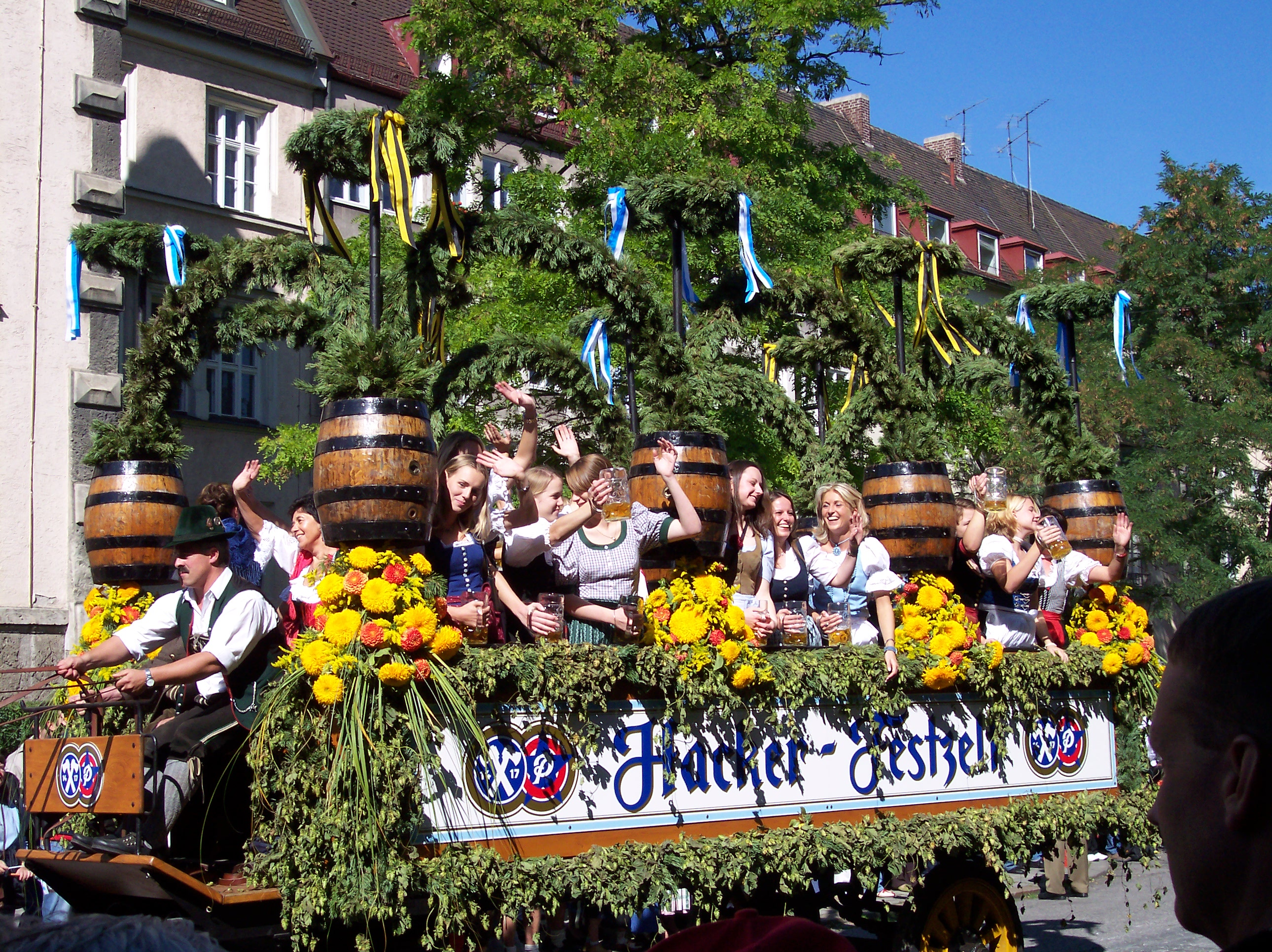 Oktoberfest Opening Parade, Munich, Germany